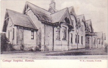 Old Postcard of Hawick Cottage Hospital, Roxburghshire